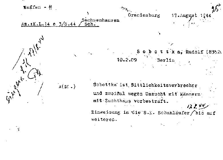 Case of homosexuality in the Sachsenhausen concentration camp. "Sobottka, Rudolf. Sobottka is a sexual predator and has two prior prison sentences for sodomy. To be assigned to penal shoe testing until further notice."